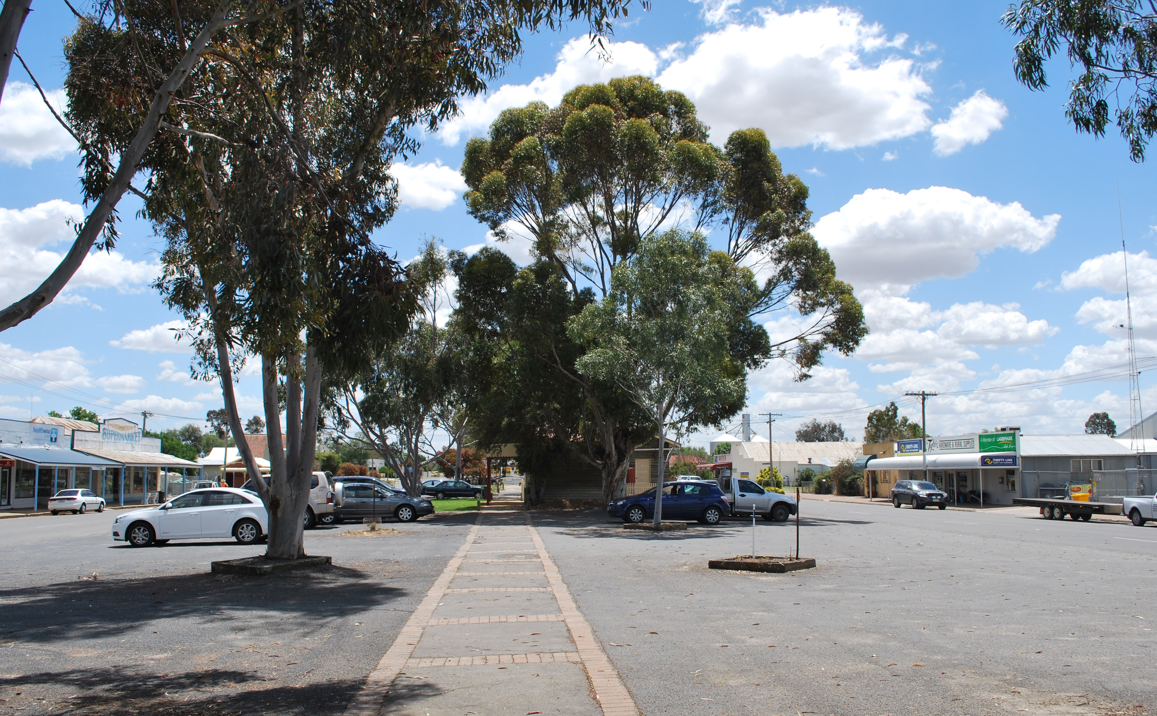 Cromie St, the wide main street of Rupanyup, Victoria